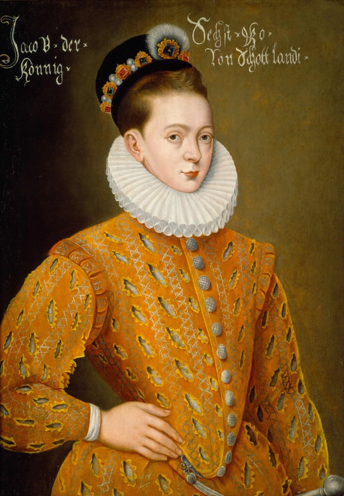 Portrait of James VI of Scotland, later James I of Engliand (1566-1625), 1585.